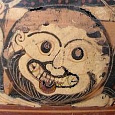 Thetis and the Nereids mourning Achilles. Corinthian black-figure hydria, 560–550 BC. Detail of the shield with gorgoneion.